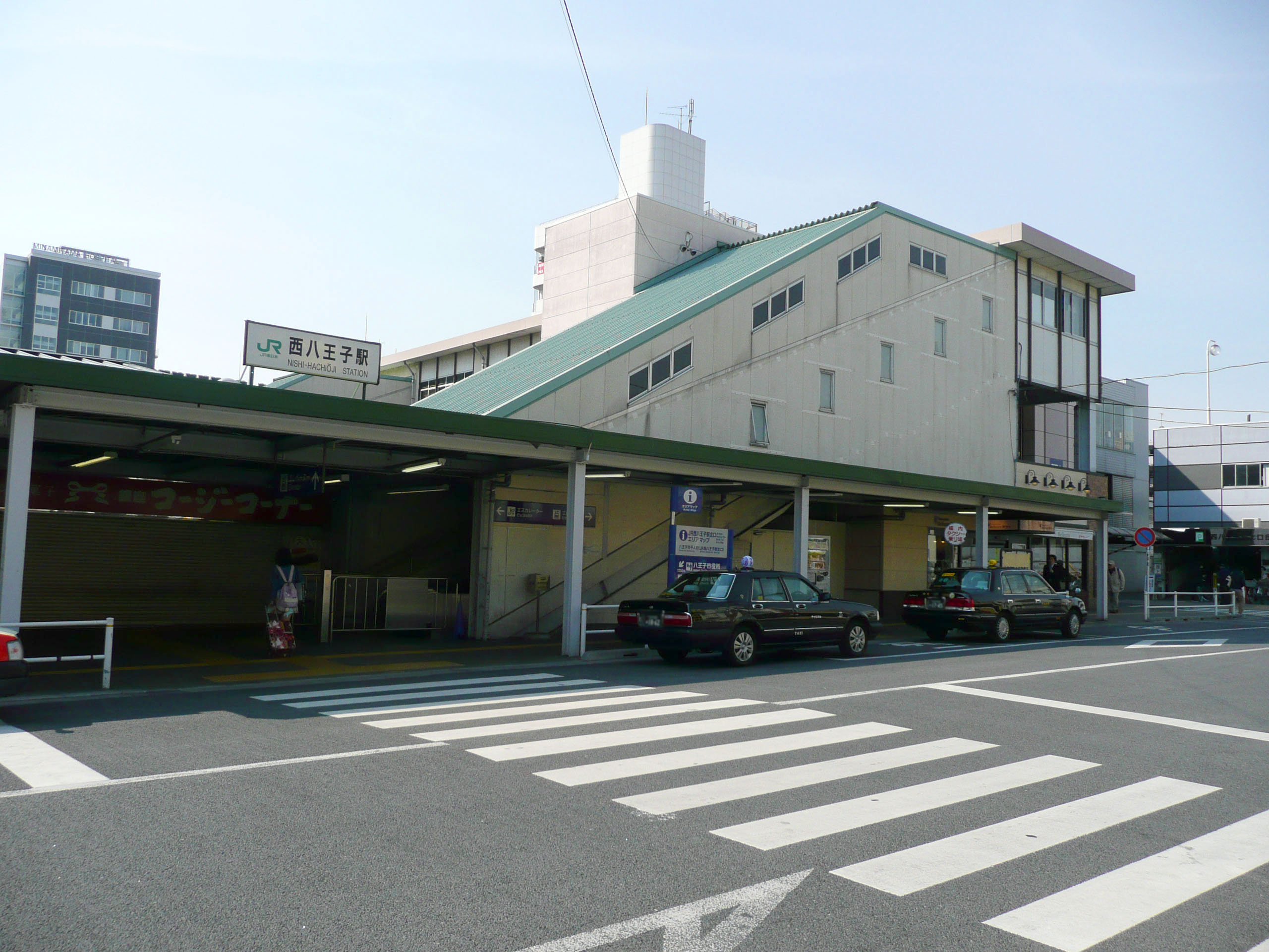 North Entrance of Nishi-Hachiōji Station